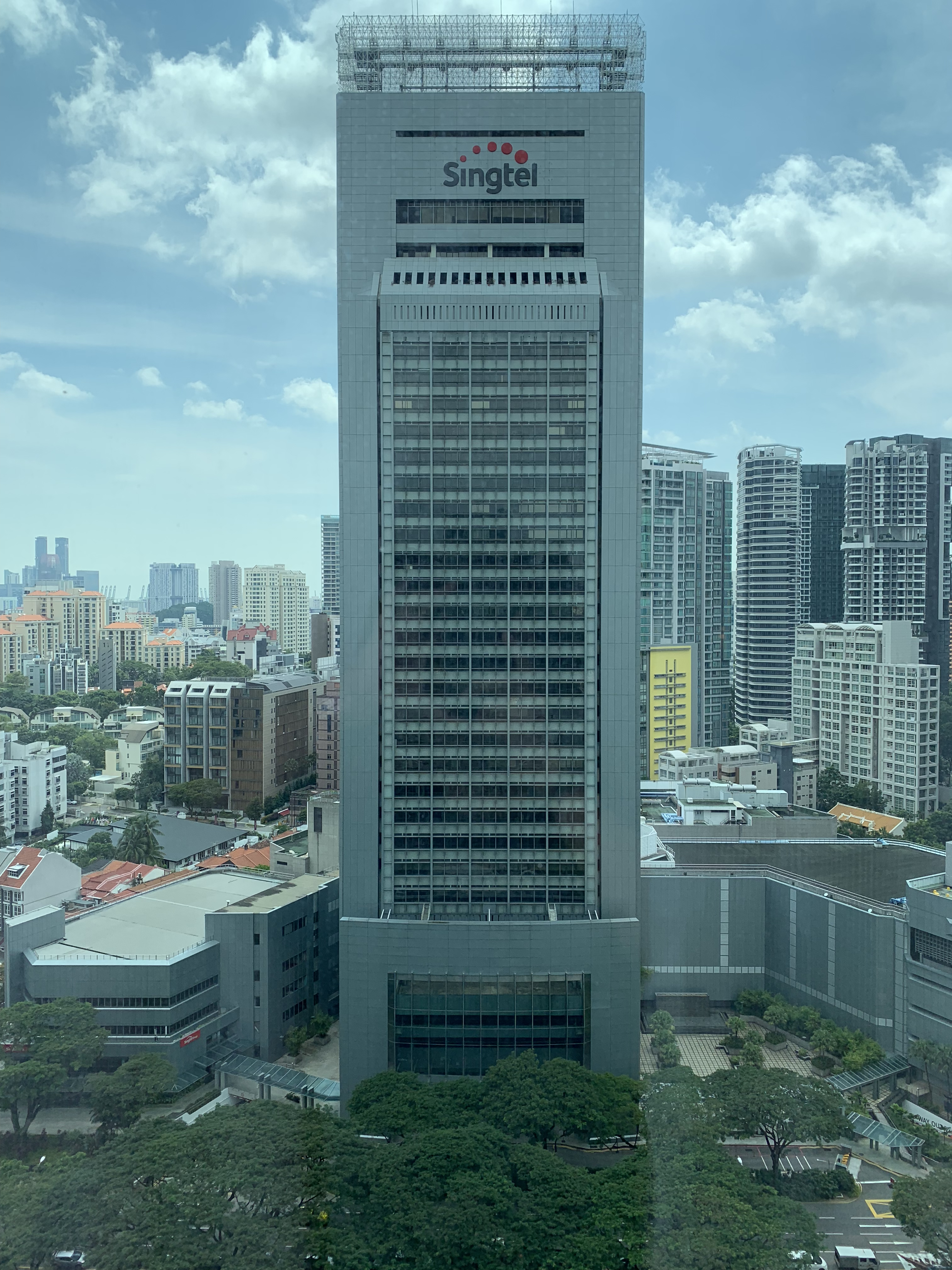 Located in the Central Region of Singapore, Comcentre is the corporate headquarters of Singtel